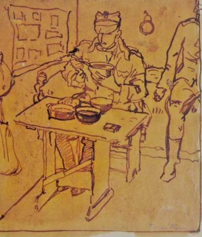 Soldat mâncând ("Soldier Eating"), drawing of the 1916 military campaign. Ink on oil-blotted paper, 16,5 x 22 cm.